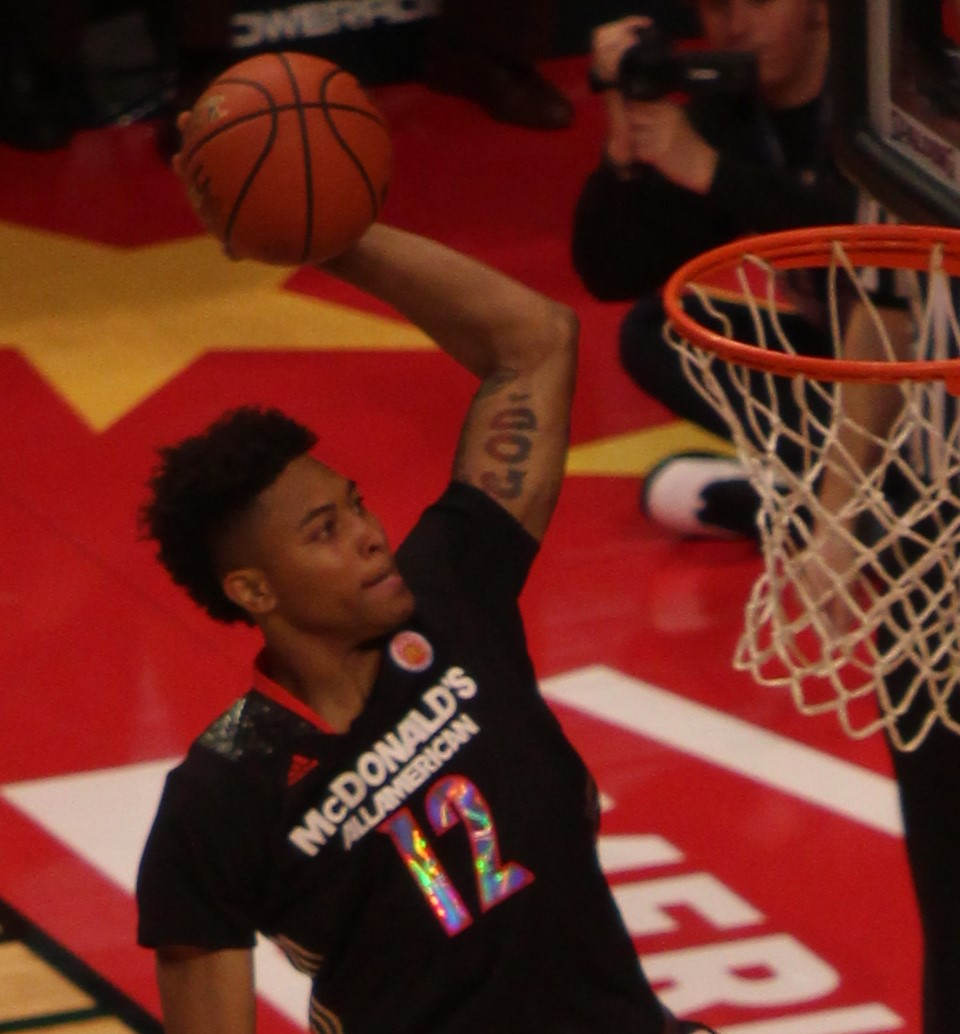 Kelly Oubre dunking in the w:2014 McDonald's All-American Boys Game